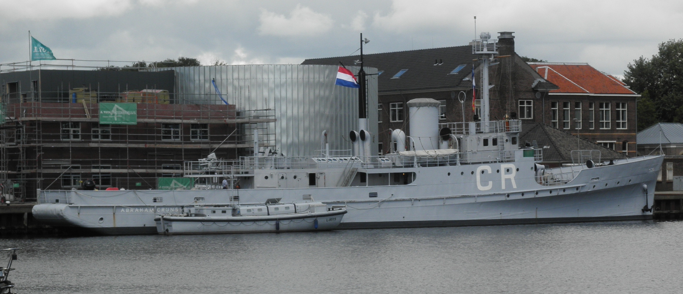 Hr Ms Abraham Crijnssen, old Dutch minesweeper of Dutch navy. Built in 1937. Now an exhibit of the marinemuseum in Den Helder.